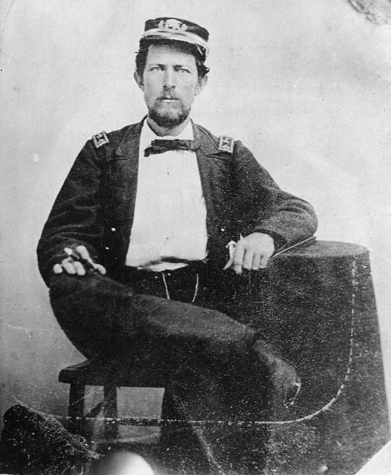 Lieutenant Commander Charles Williamson Flusser, U.S. Navy